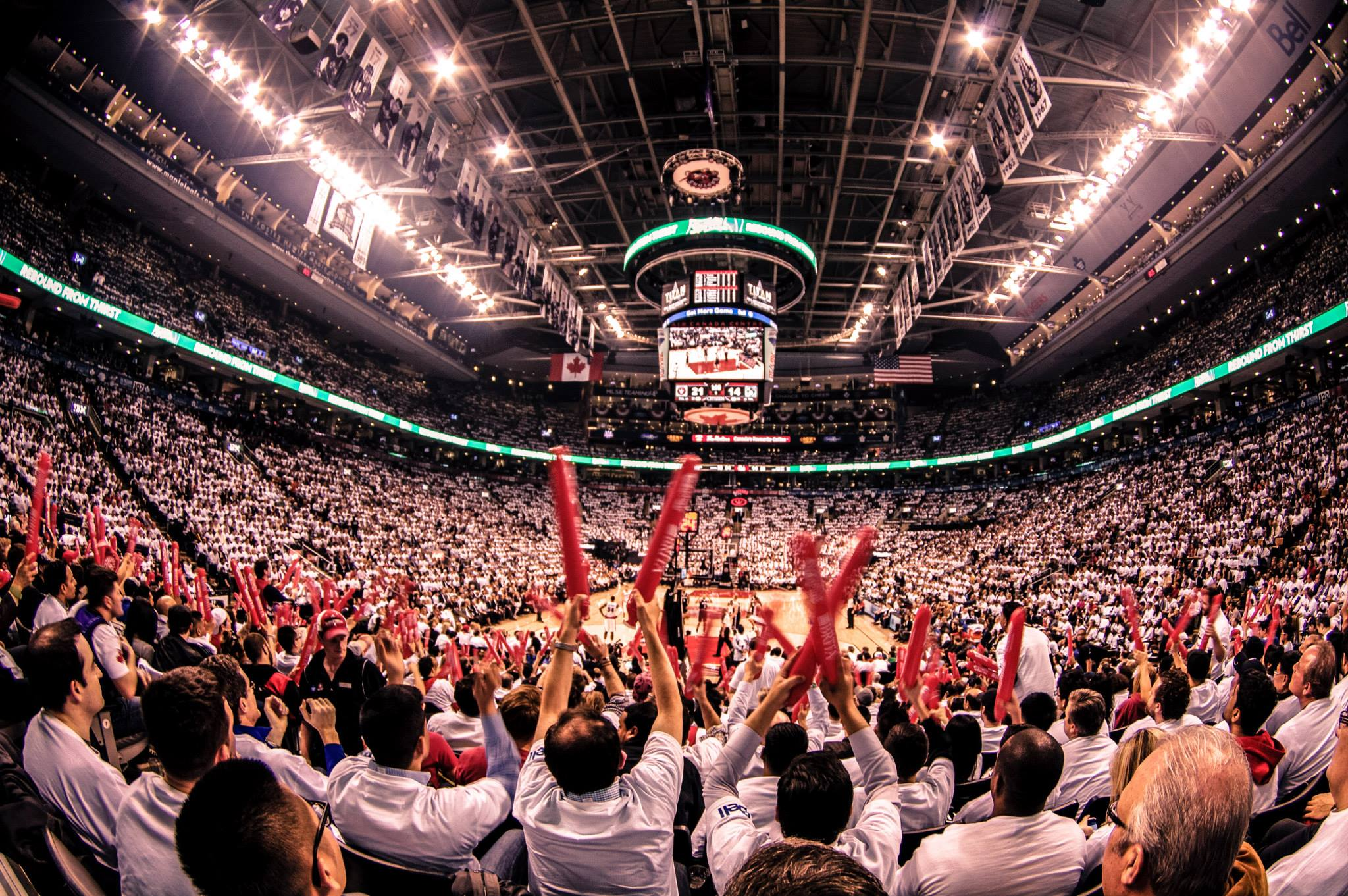 Brooklyn Nets vs Toronto Raptors, 2014 NBA Playoffs